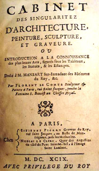 Cabinet of curiosities of Architecture, Painting, Sculpture, and Engraving, by Florent le Comte. A treatise in two volumes on European art and associated artists written in 1699 (was translated into Dutch in 1708)